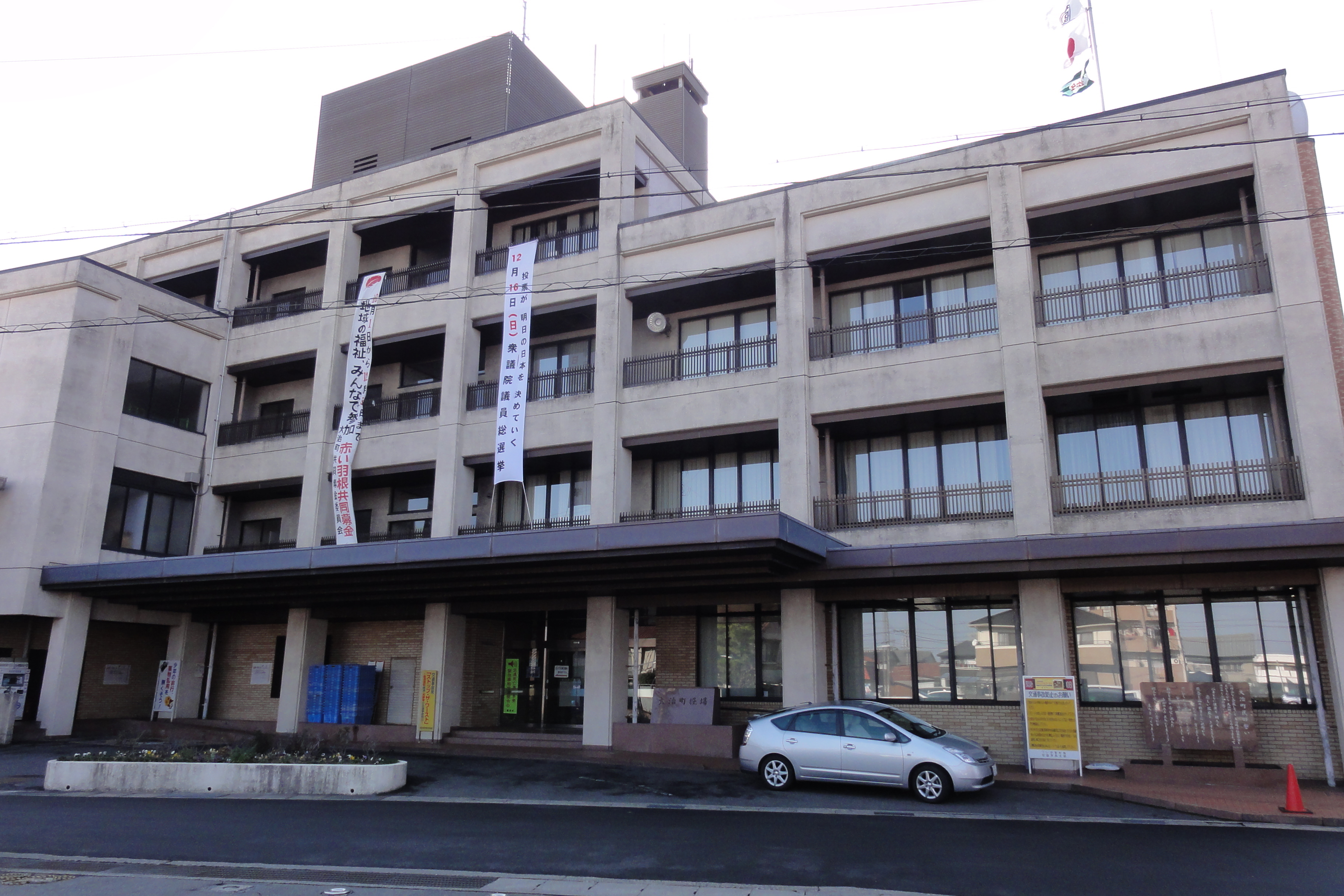 Ōharu town office,Aichi prefecture,Japan